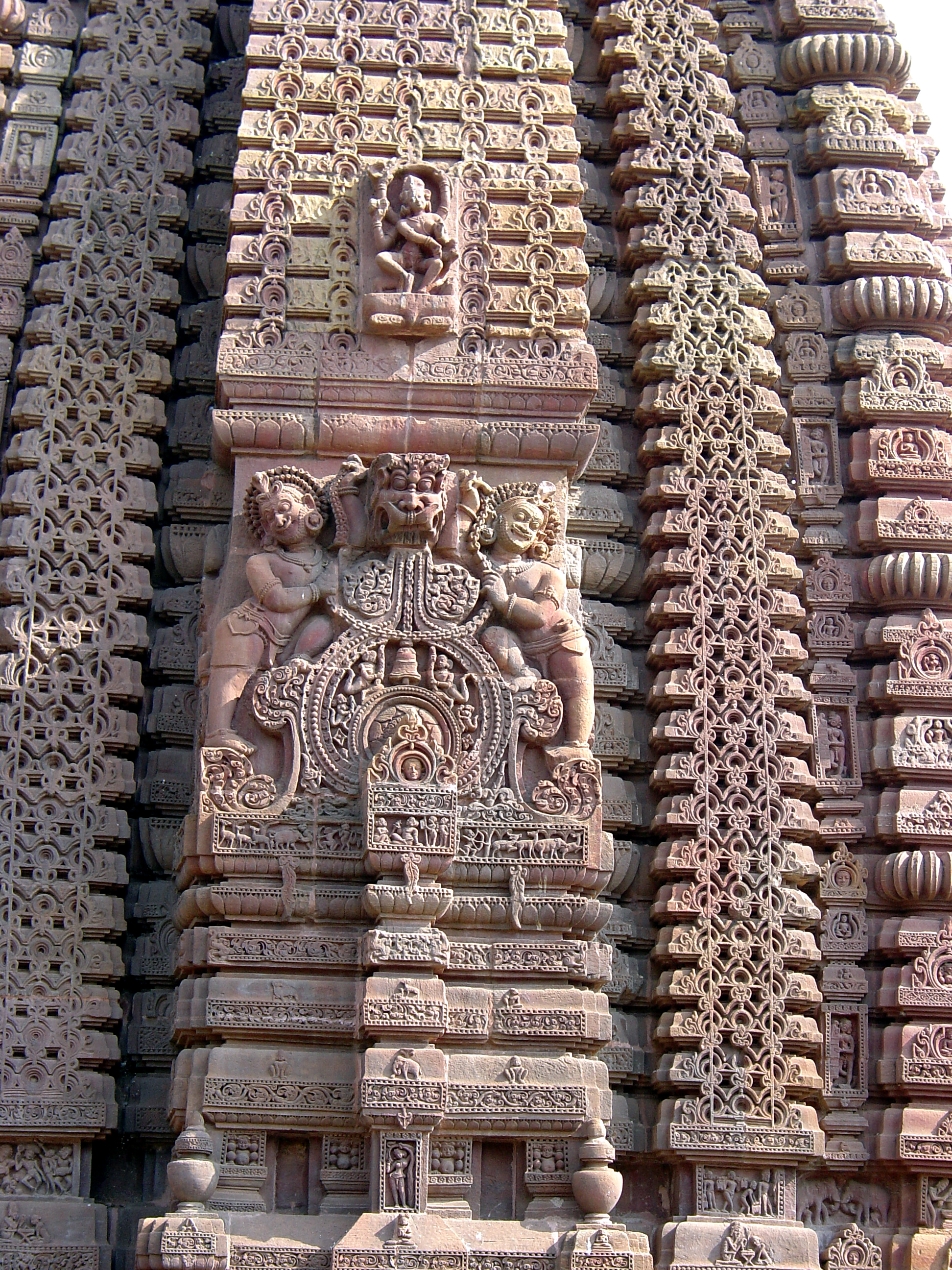 Bho Motif. South face of Tower, Mukteshvara Temple The bho is framed by two Indonesian-style guardians, wearing snakes in their hair. Between the guardians, an ornate chandrashala depends from the mouth of a kirttimukha. Within the chandrashala is a bell, and below the bell a circular lotus surrounded by flying celestials; in front of the lotus is a head within a smaller chandrashala, arranged as if peeping out from atop a balcony. Below is a scene with court ladies, flanked by two hunting scenes with deer and elephants. Above the bho, a figure of dancing Shiva occupies a shallow projecting niche, which is surrounded by miniature carved shrines. The meaning of the bho is not known specifically, but it may invoke Shiva as protector of the royal household.